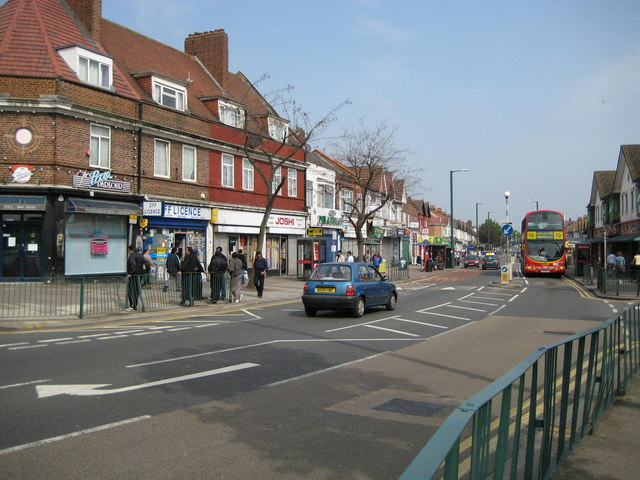 Alperton: A4089 Ealing Road. A No. 79 bus bound for Alperton Sainsbury's nears its journey's end.